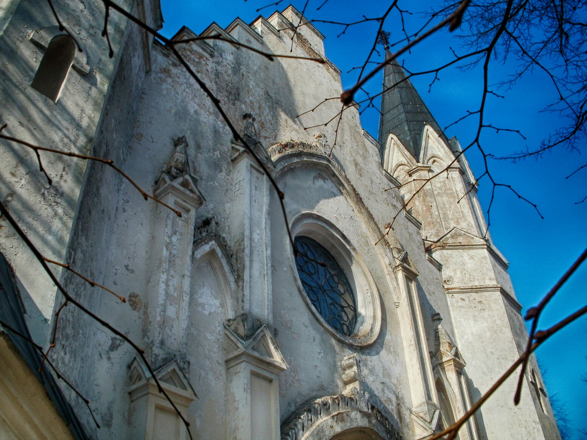 Беларуская (тарашкевіца): Касьцёл. в. Раўбічы This is a photo of Belarusian heritage monument. Reference number: 613Г000373 ( WLM)